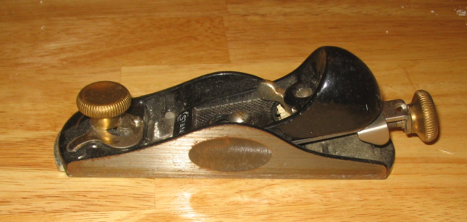 Stanley Block Plane. Photo taken by Jim Thomas, 16 March, 2006. Plane (tool)